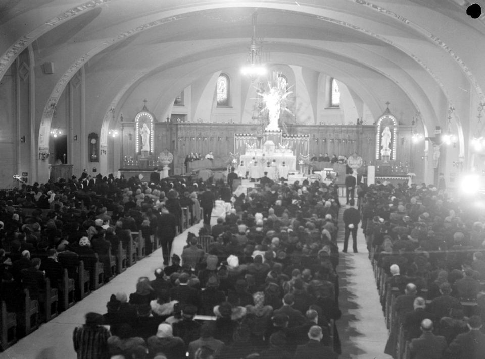 We have an overview of all choir and benches occupied by the view from the faithful attend a Mass for the sicks celebrated at St. Joseph's Oratory.